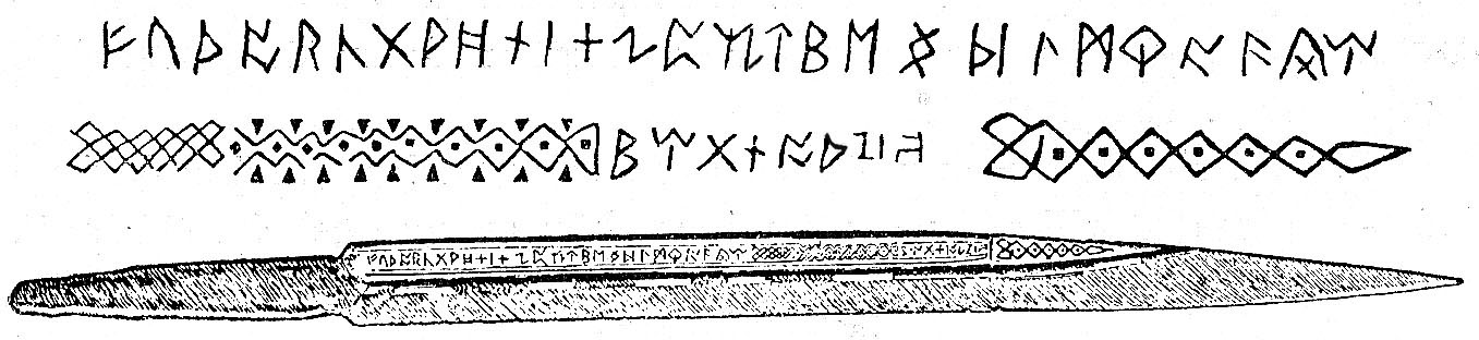 Themsensvärdet med inskrifter, London, Storbritannien. Thames scramasax with incriptions, London, Great Britain